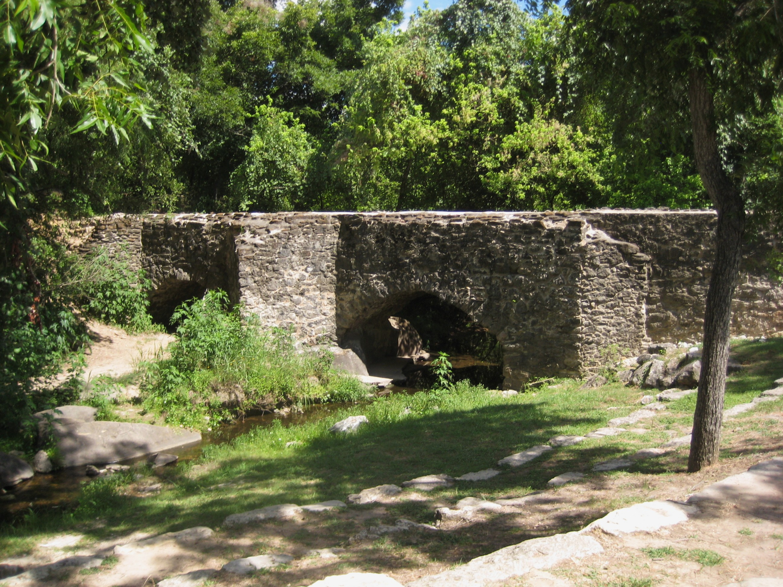 Espada Acequia (1731 aqueduct). At the Mission Espada, present day San Antonio, Texas. A National Historic Civil Engineering Landmark.